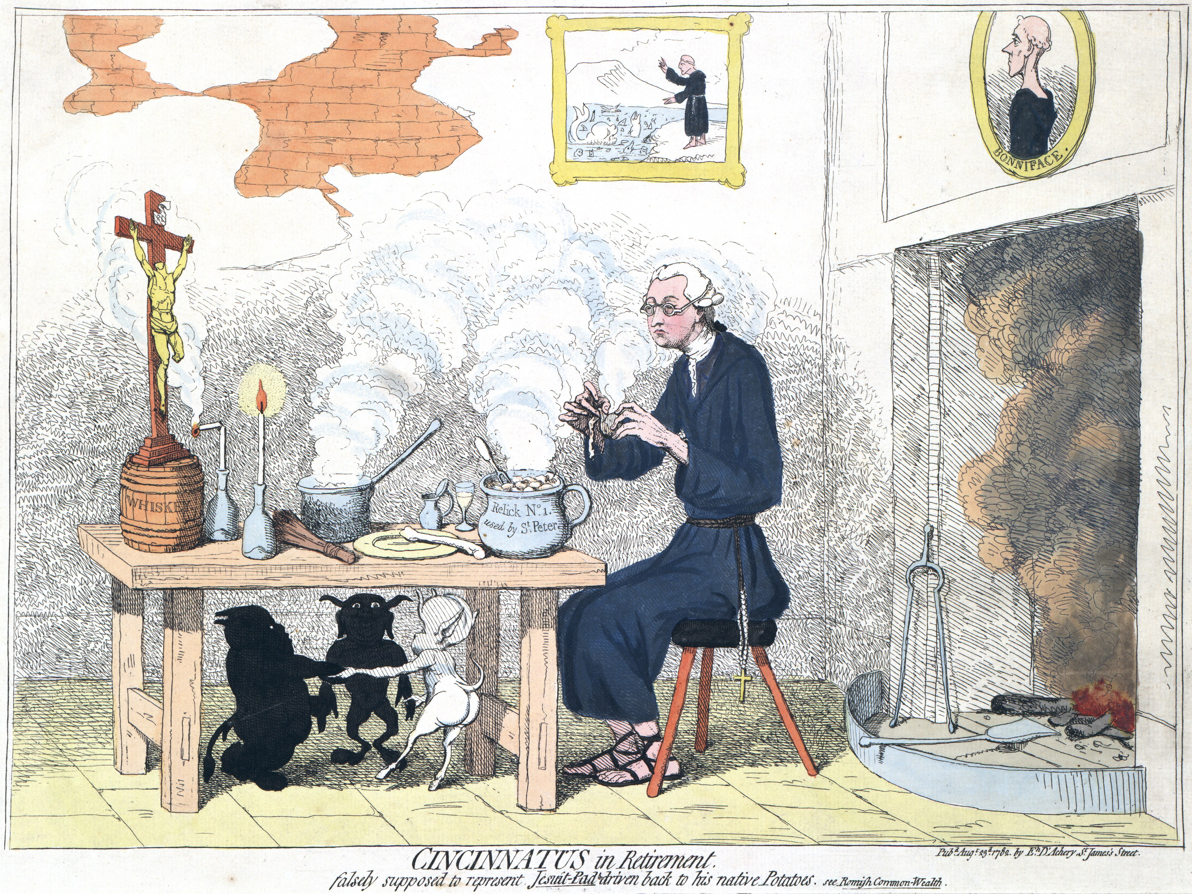 Cincinnatus in Retirement. falsely supposed to represent Jesuit-Pad driven back to his native Potatoes. see Romish Common-Wealth. SUMMARY: Cartoon showing Edmund Burke, as an Irish Jesuit, seated at a table eating potatoes from a pot labeled "Relick No. 1. used by St. Peter." Upon the appointment of Shelburne, following the death of Rockingham, Burke resigned from his position as Rockingham's secretary in protest. Burke is portrayed as a Jesuit because he supported the 1778 Relief Act which relaxed restrictions on the rights of Catholics. The poverty of the Irish is parodied by the potatoes. Catholicism is parodied by the pictures on the wall, the mutilated crucifix, the pot labeled as a relic of St. Peter, and the demons dancing under the table. MEDIUM: 1 print : etching, hand-colored. CREATED/PUBLISHED: [London] : Pubd. by Eh. D'Achery, 1782 Augt. 23d.